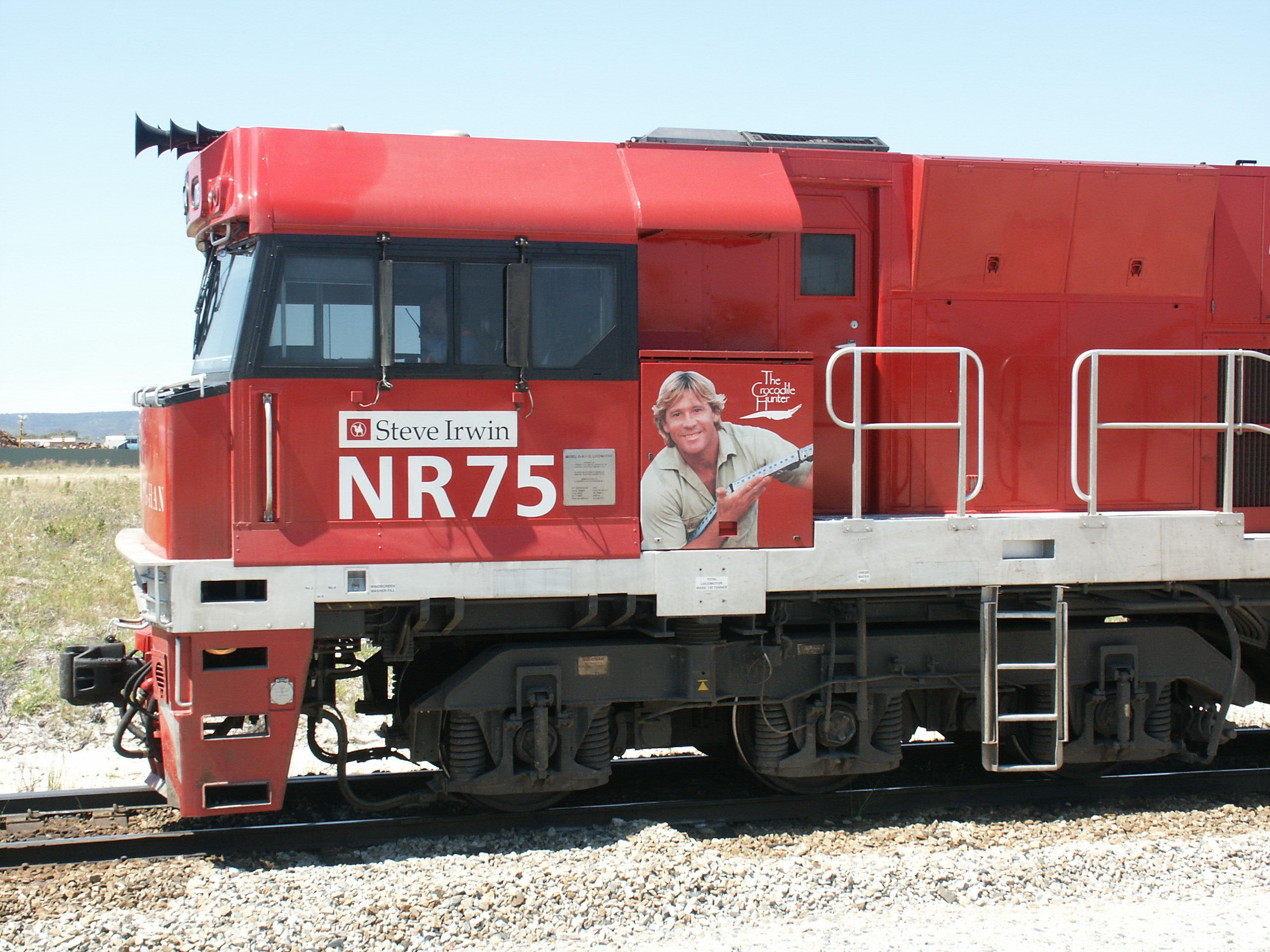 Pacific National Ghan locomotive with Steve Irwin promotion.